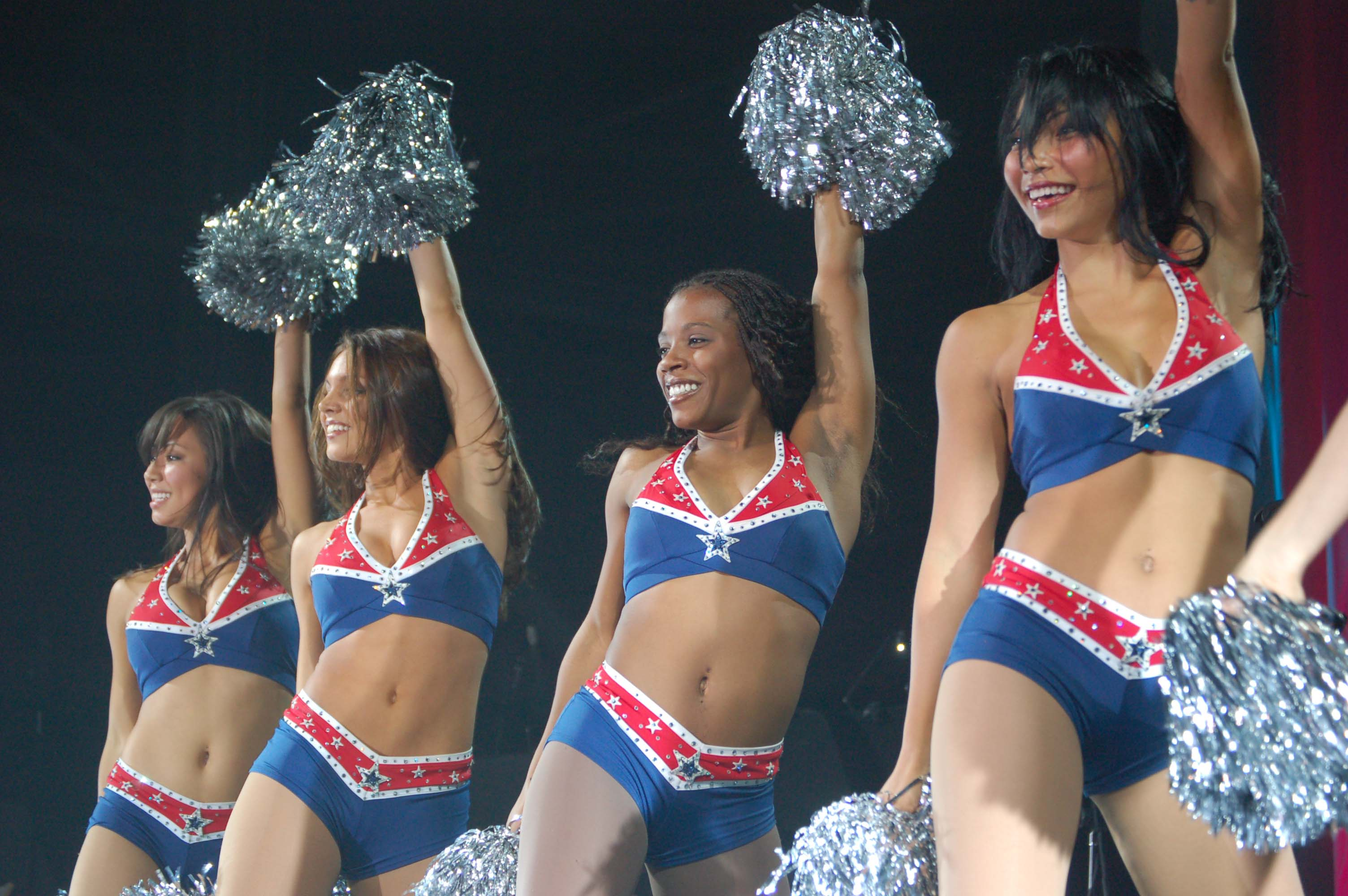 New Englands Patriots cheerleaders Briana Lee, Alysha Castonguay, Stacey McIntyre and Dinna Yap performing a dance routine for U.S. airmen and their families at Incirlik Air Base, Turkey, as part of Operation Season's Greetings, an Air Force Reserve Command-sponsored tour designed to bring some down home entertainment and holiday cheer to Airmen overseas.